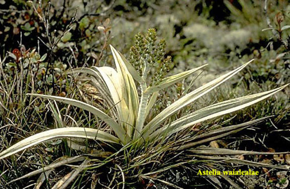 Astelia waialealae USFWS photo